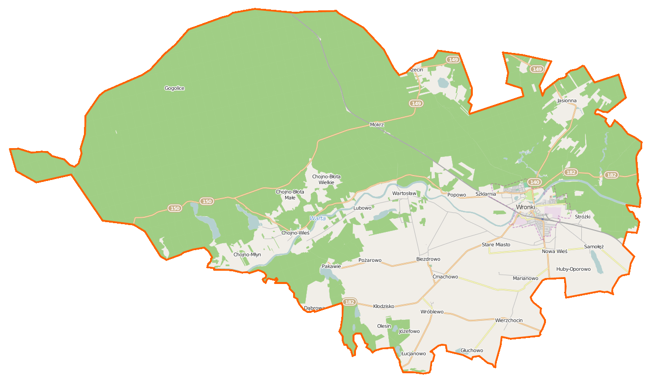 Map of Gmina Wronki, Poland This map of Wronki (gmina) was created from OpenStreetMap project data, collected by the community. This map may be incomplete, and may contain errors. Don't rely solely on it for navigation. Border coordinates52.797816.0071←↕→16.462752.6345